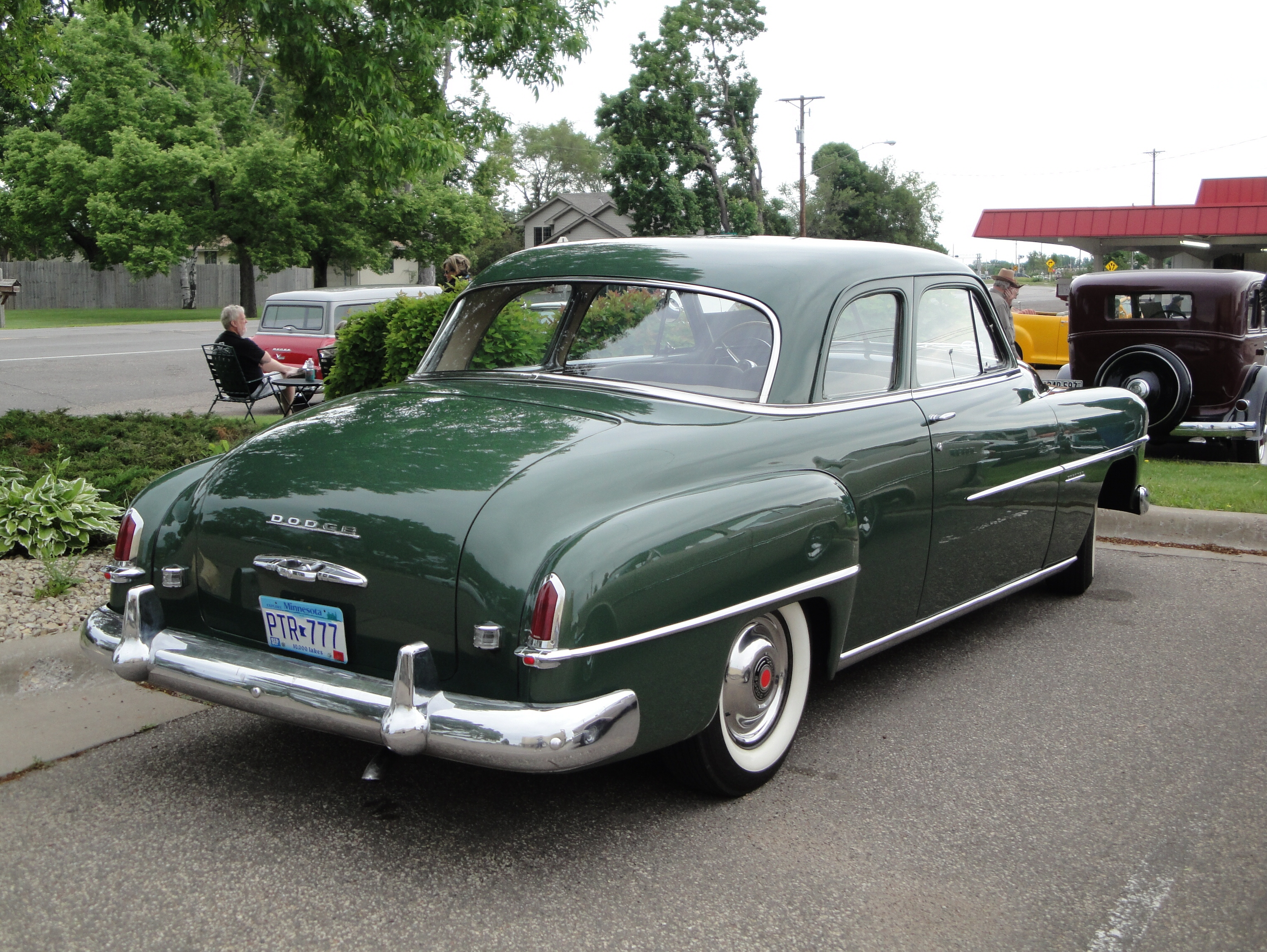 W.P.C. Restorers Club 10,000 Lakes Region Car Show June 12, 2011 Wagner's Drive in